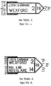 T8 Road Sign, 1956